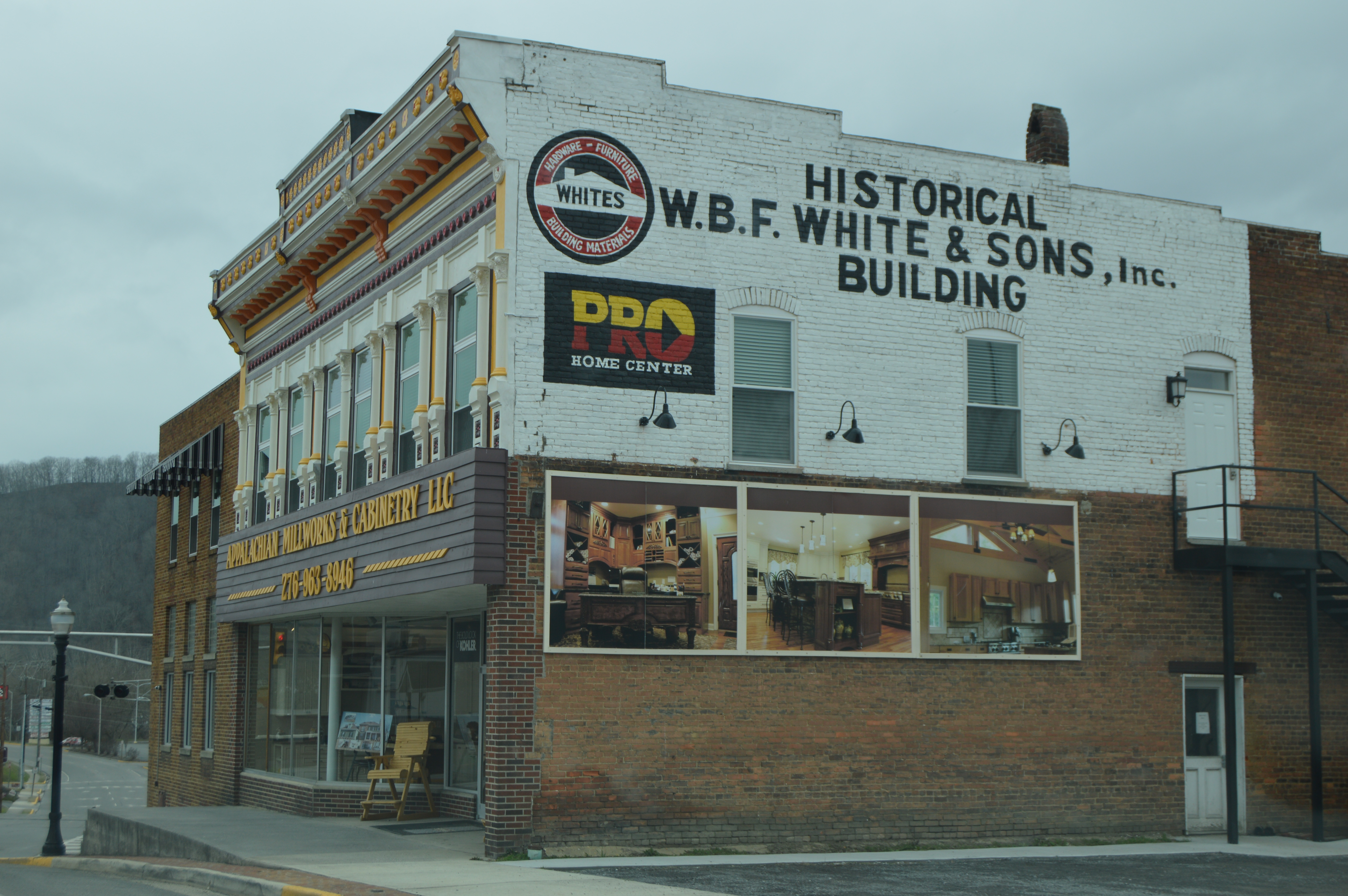 Front and eastern side of the W.B.F. White and Sons Building, located along Railroad Avenue (State Route 67) and Second Street in central Richlands, Virginia, United States. Built in 1892, the White Building is part of the Richlands Historic District, a historic district that is listed on the National Register of Historic Places.